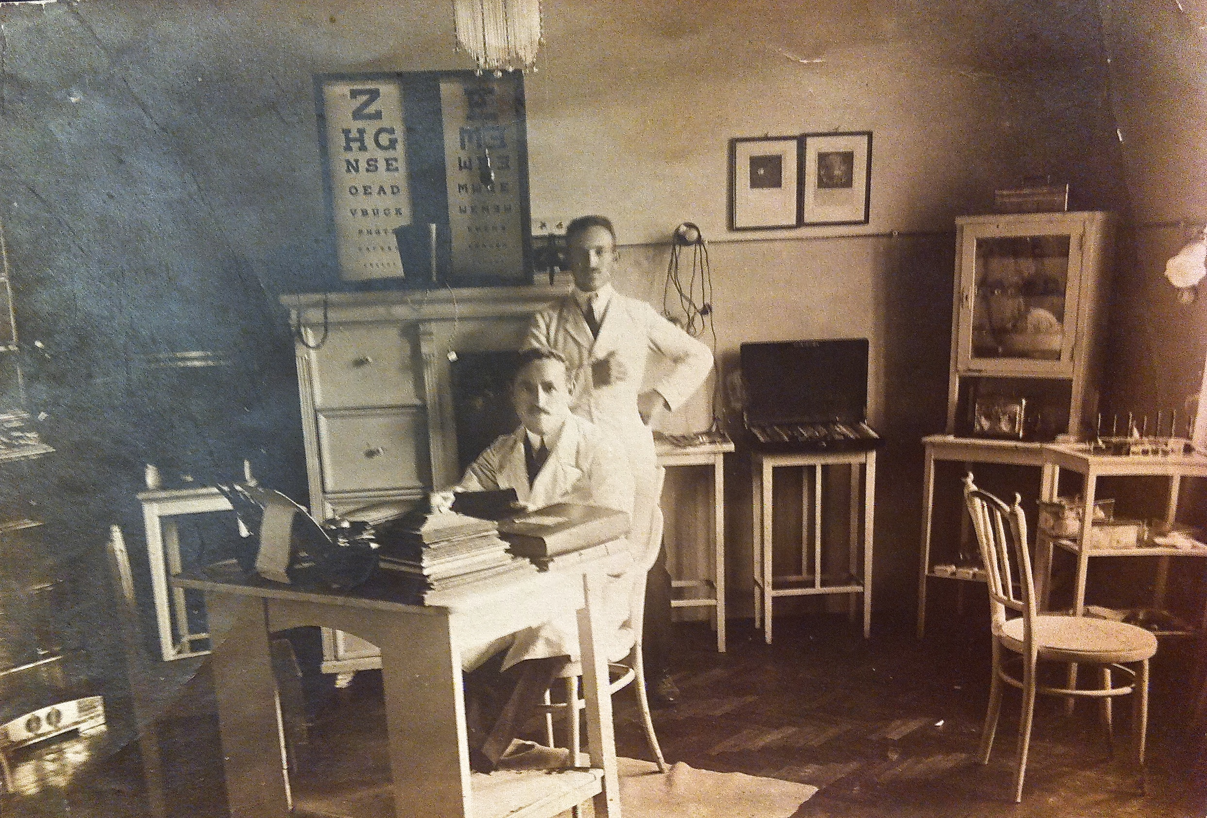 It is about the medical office of Nicolae Blatt in Tirgu Mures, Romania